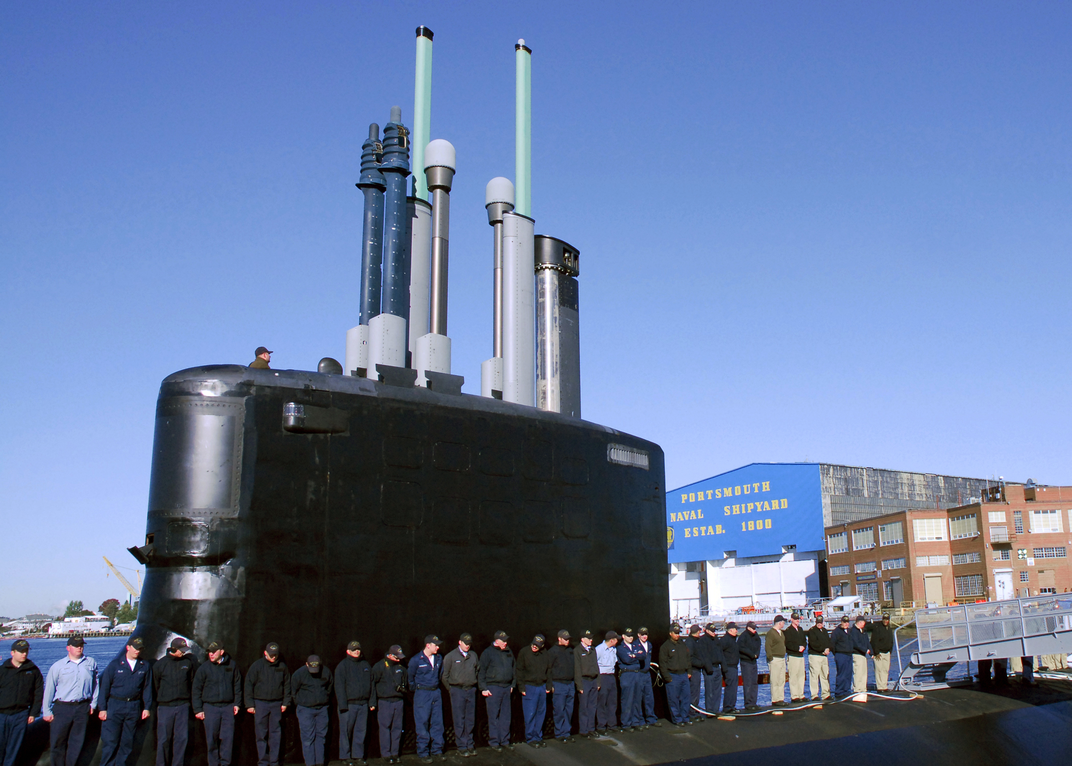 081023-N-2966A-002 KITTERY, Maine - Submariners assigned to the Virginia-class attack submarine Pre-commissioning Unit New Hampshire (SSN 778) practice manning their ship during rehearsals for the boat's commissioning ceremony at Portsmouth Naval Shipyard. New Hampshire will be commissioned Saturday, Oct. 25 during a ceremony at PNS. New Hampshire is the fifth submarine in the Virginia class, the first major U.S. Navy combatant vessel class designed with the post-Cold War security environment in mind.